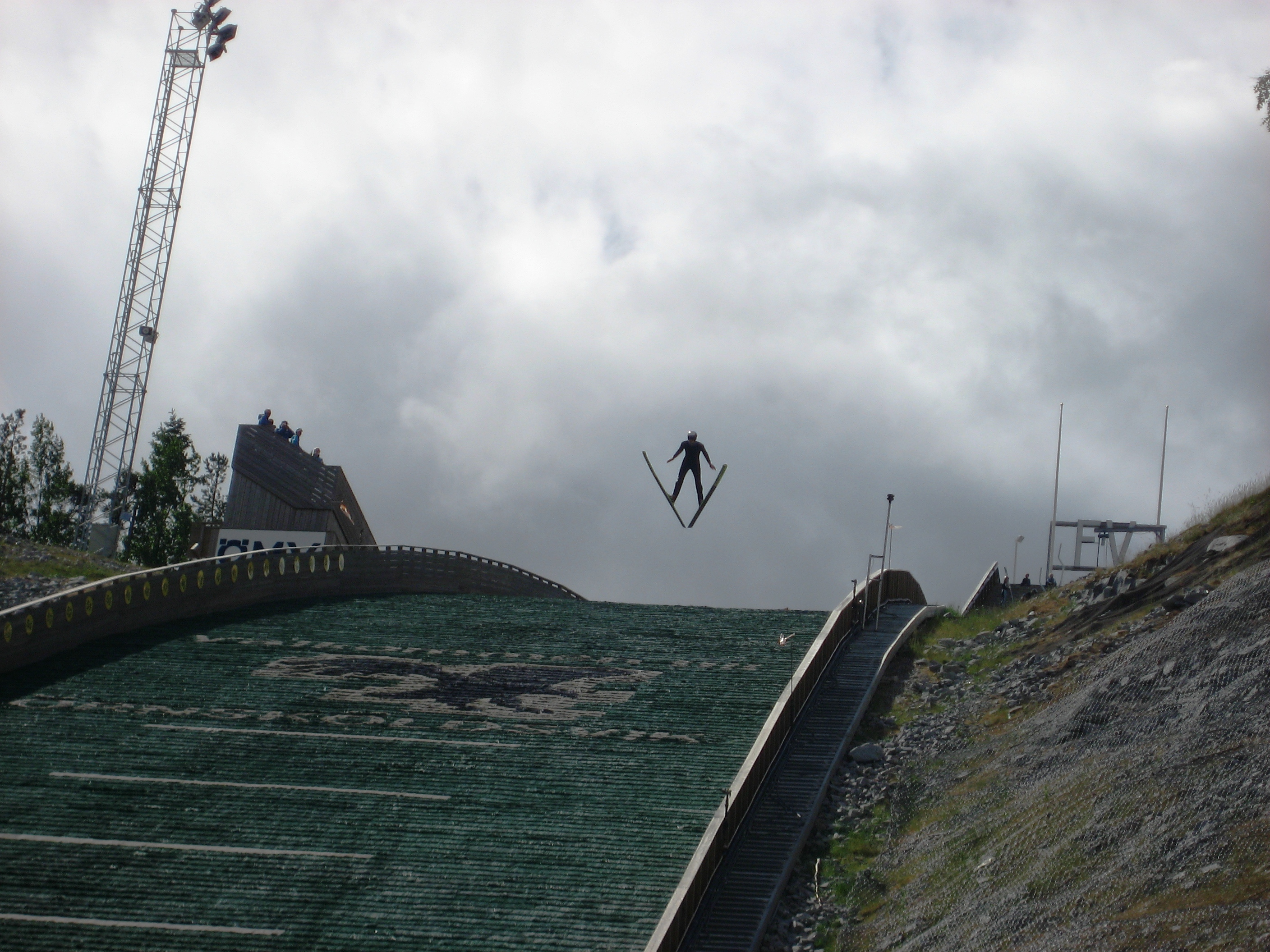 There were a bunch of Norwegian ski jumpers training on the green plastic of the ski jumping hill (Paradiskullen) close to Örnsköldsvik.